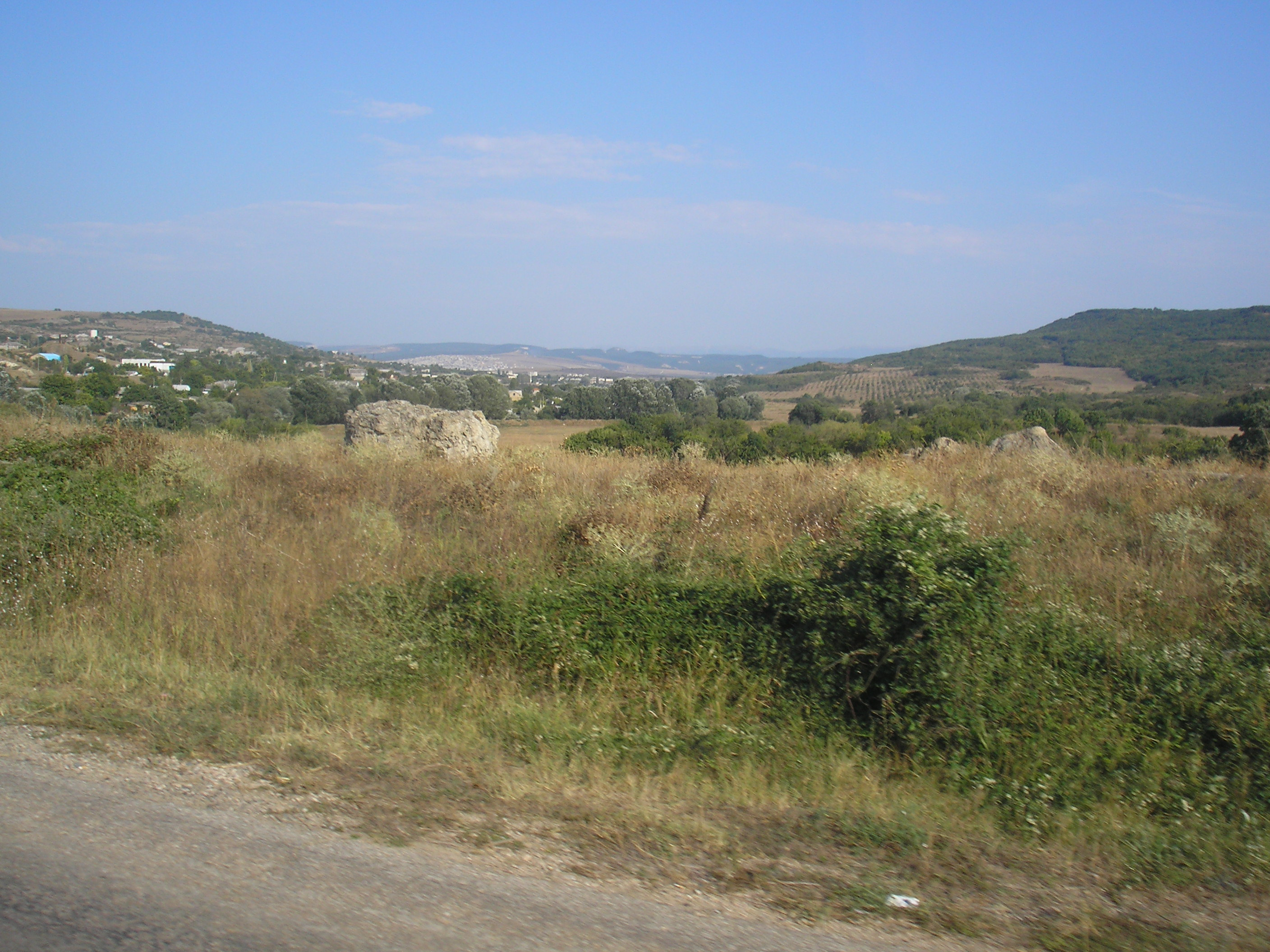 The middle part of the Kacha River valley, the Crimea.